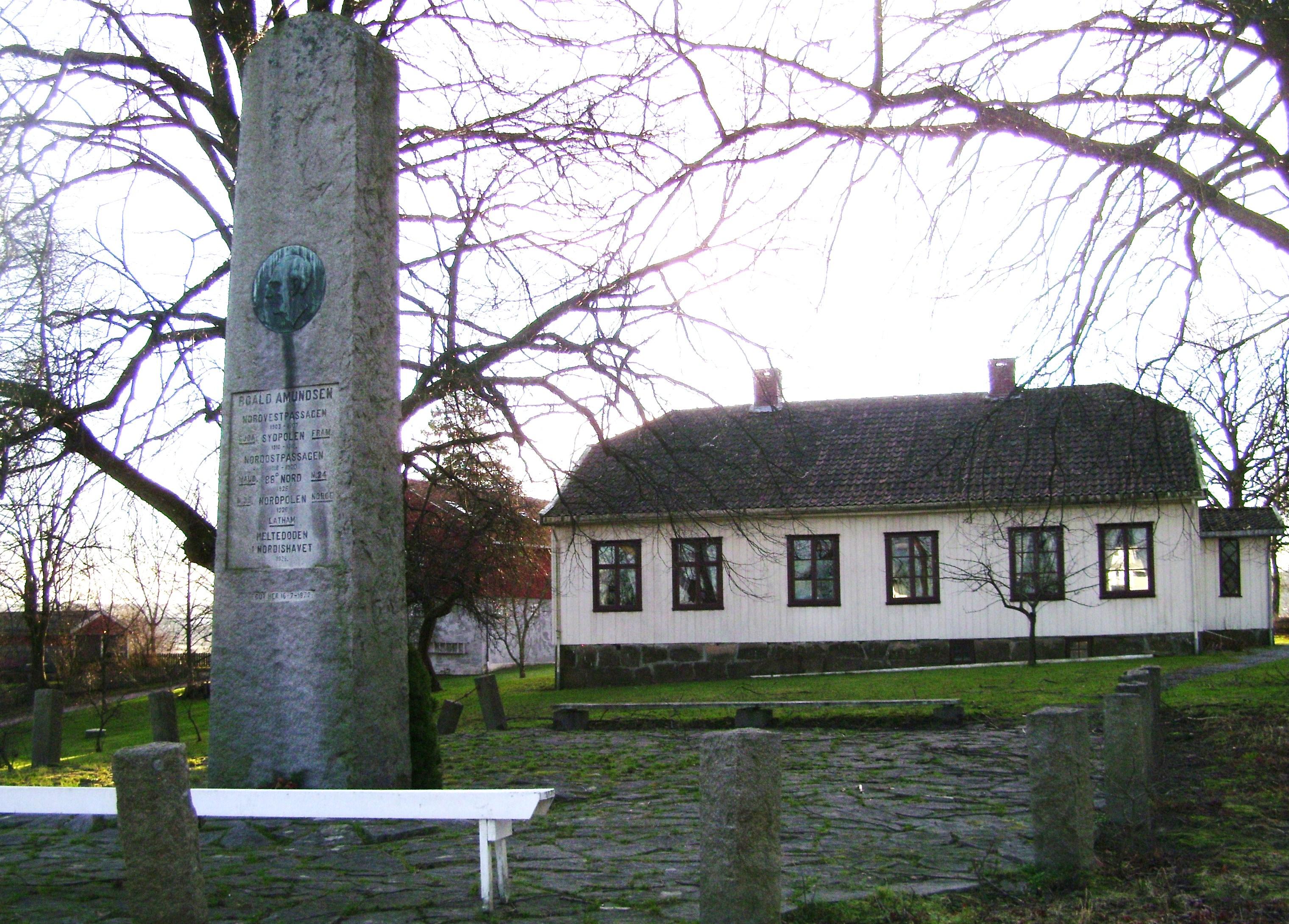 Birth house of Roald Amundsen at Borge and memorial in the garden